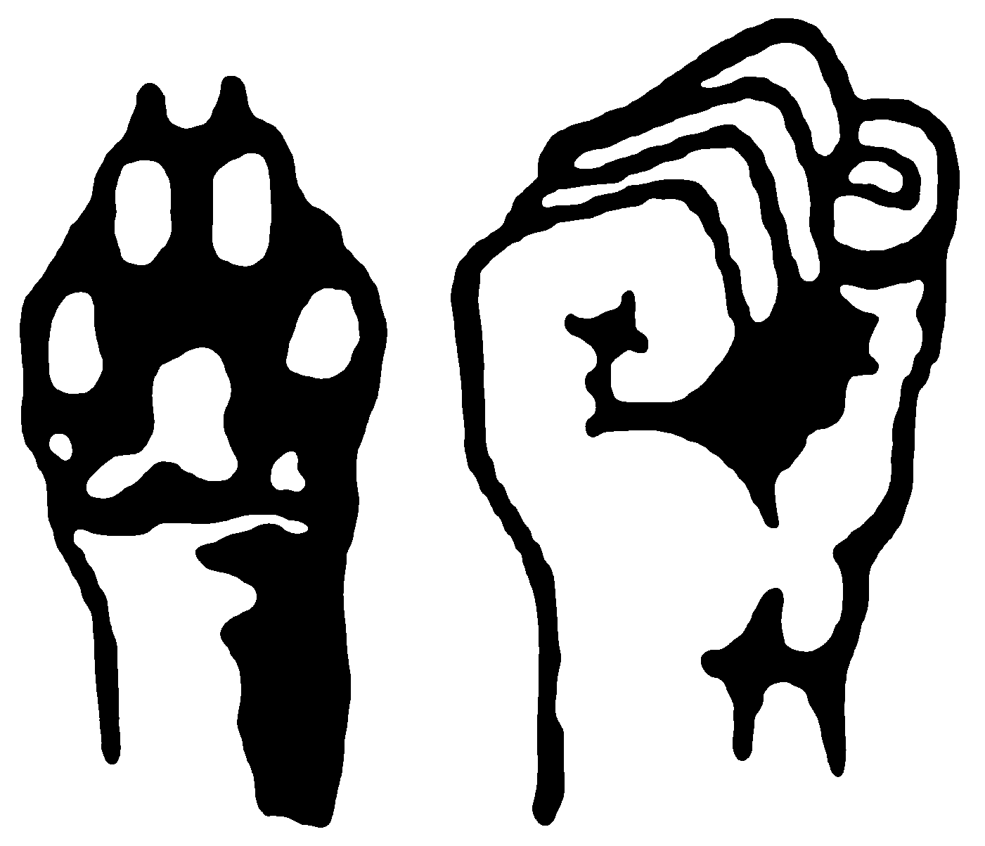 Animal Liberation Human Liberation